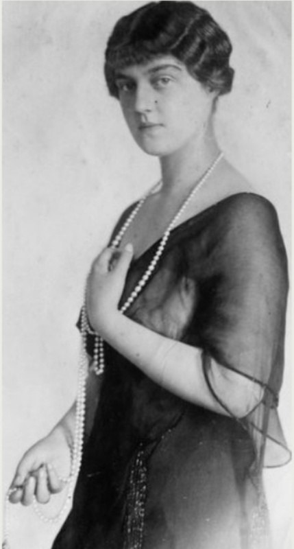 Grand Duchess Maria Pavlovna of Russia. 1921